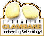 Logo image for Operation Clambake by Andreas Heldal-Lund